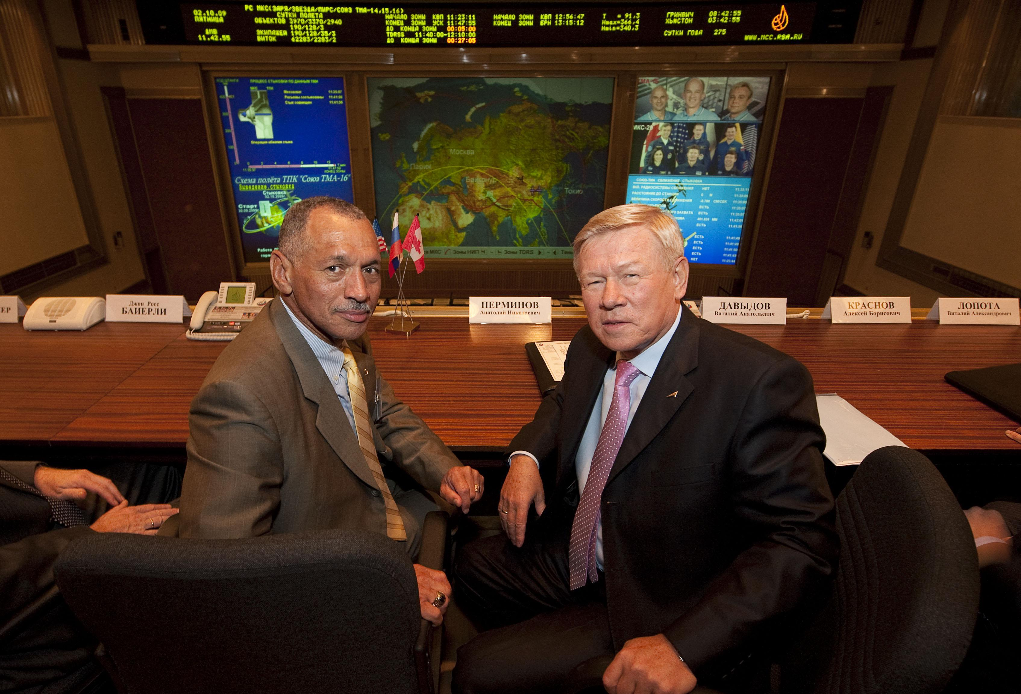 NASA Administrator Charles Bolden, Left, and Head of the Russian Federal Space Agency, Anatoly Perminov turn to pose for a photograph at Mission Control Centre Moscow in Korolev, Russia shortly after the successful docking of the Soyuz TMA-16 spacecraft with the International Space Station marking the start of Expedition 21 with Flight Engineer Jeffrey N. Williams, Expedition 21 Flight Engineer Maxim Suraev, and Space-flight Participant Guy Laliberté.